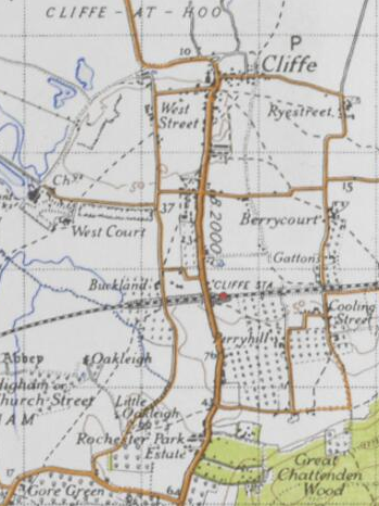 Map showing the area where the settlements of Cliffe and Cliffe Woods are located as it was in the 1940s.